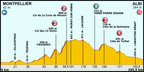 Tour de France 2013 - Profile Stage No. 7